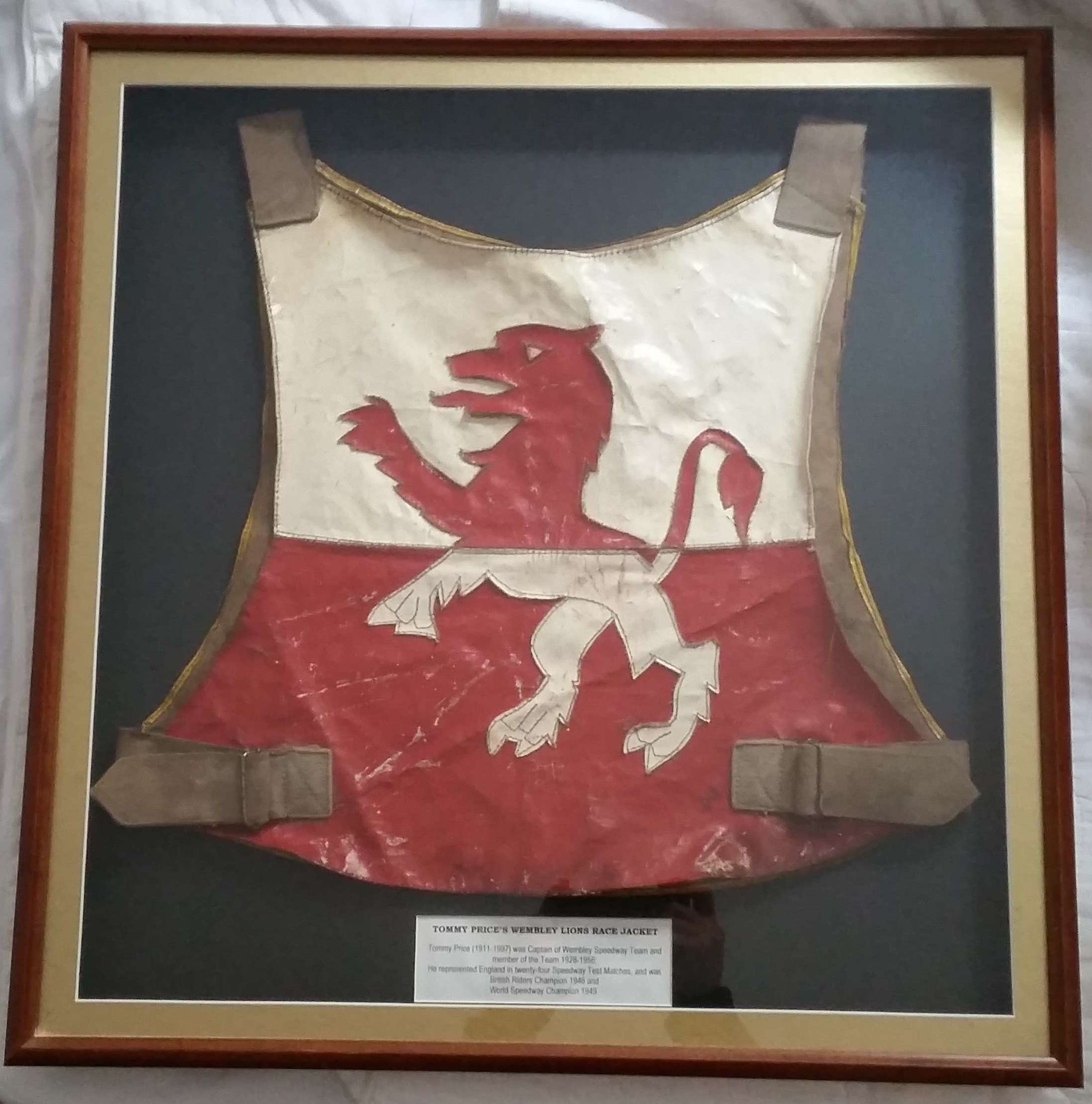 Tommy Price's Wembley Lions Race Jacket Tommy Price was Captain of the Wembley Speedway Team and member of the Team 1928-1956